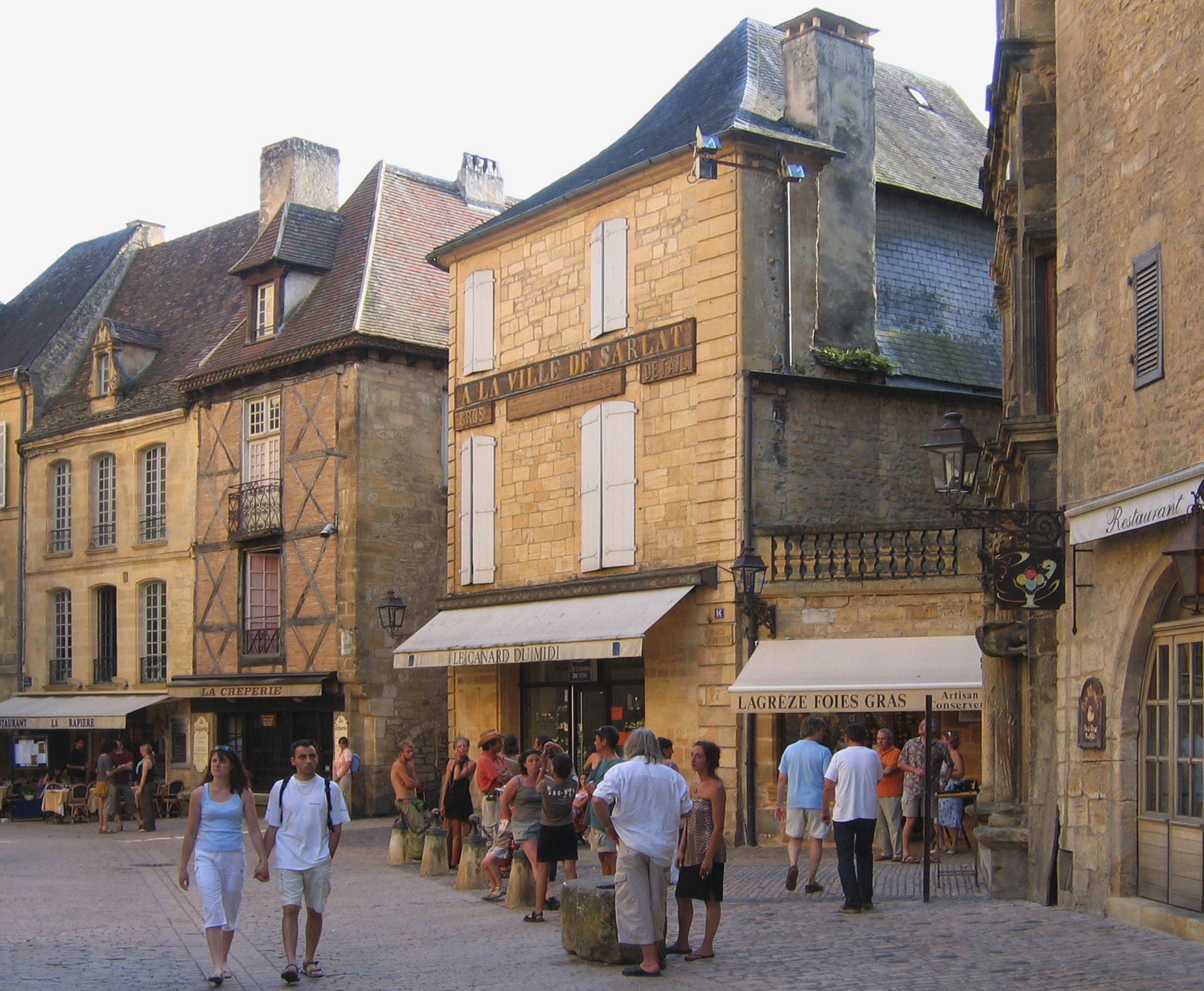 Sarlat-la-Canéda (Dordogne, France).